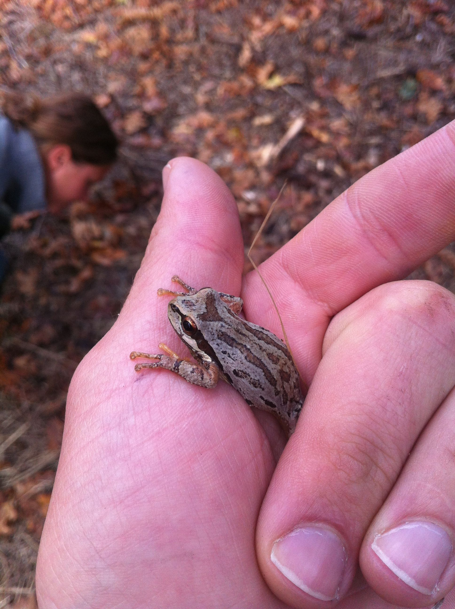 This tree frog is exhibiting a brown color morph, as fall sets into its native Garry oak meadow near Lake Cowichan, British Columbia.